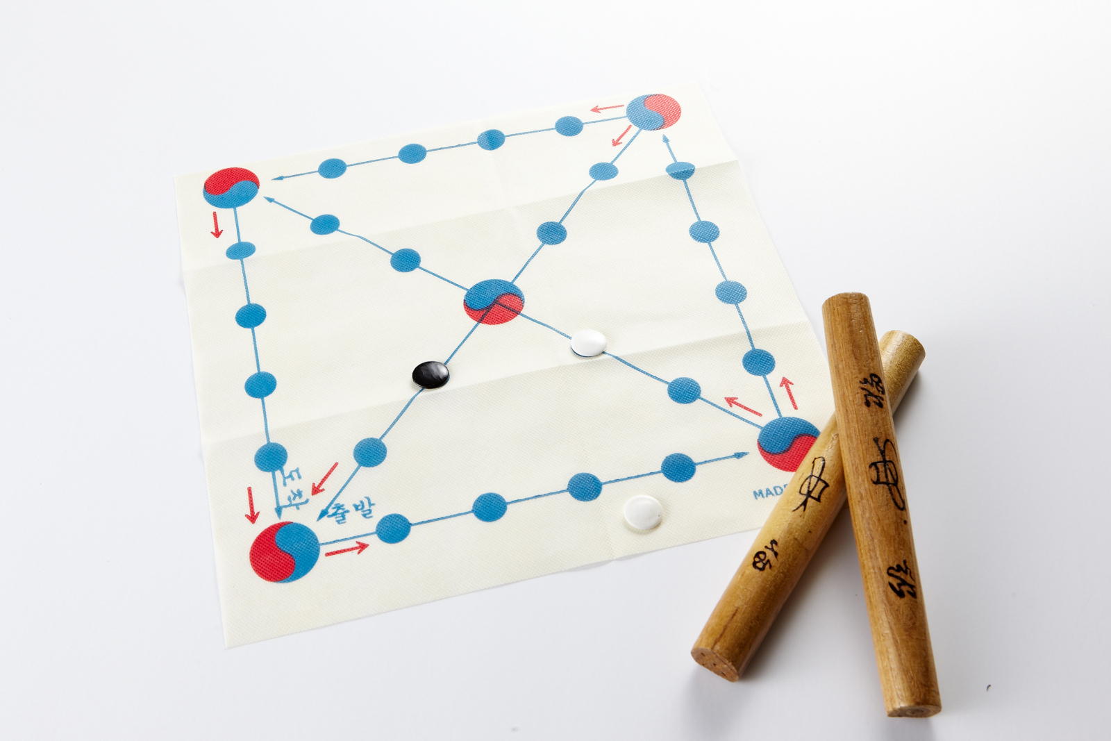 Yut-nori (game of yut)